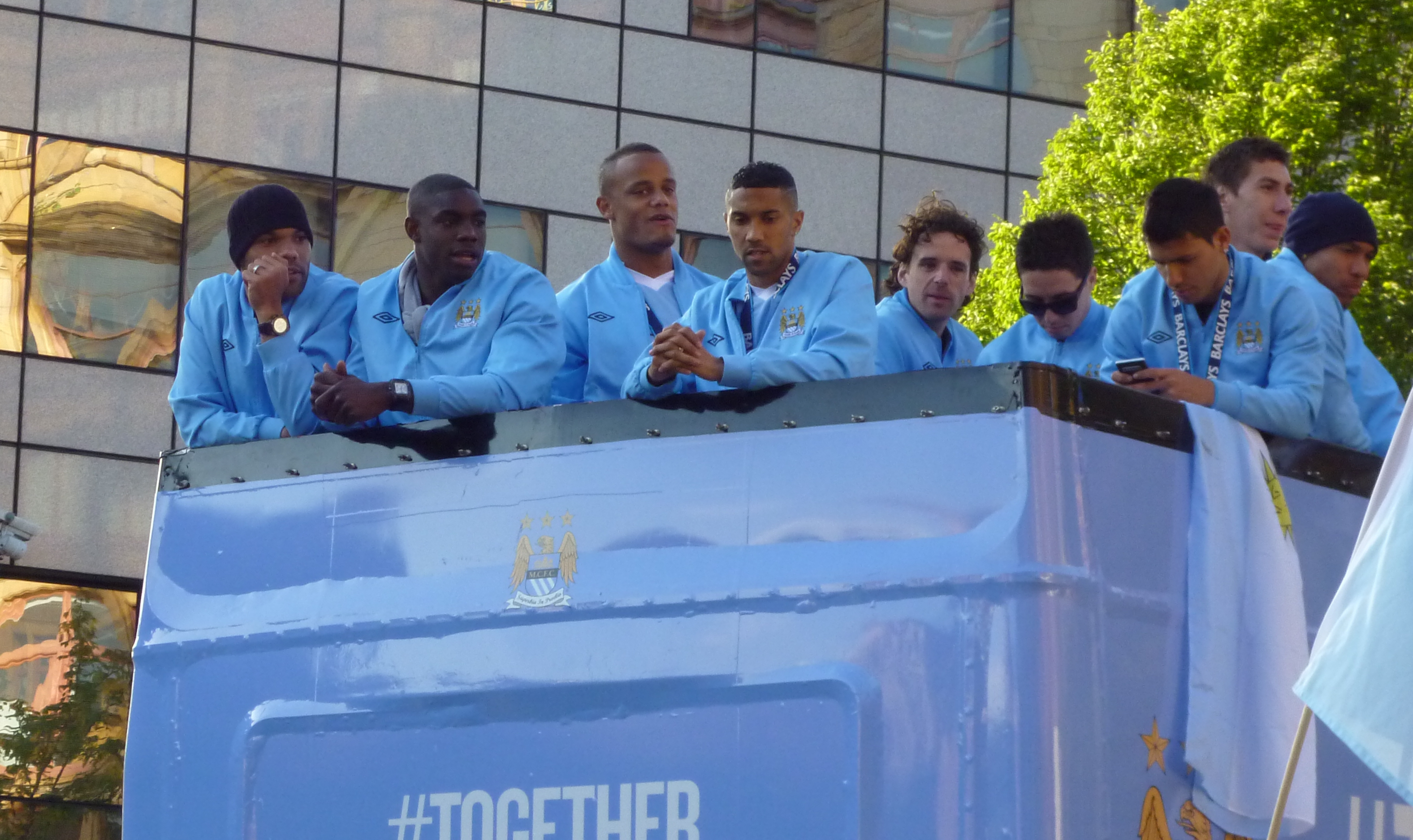 Several Manchester City players during their Premier League victory parade, 14 May 2012. Left to right: Joleon Lescott, Micah Richards, Vincent Kompany, Gael Clichy, Owen Hargreaves, Samir Nasri, Sergio Aguero, Costel Pantilimon, Nigel de Jong.